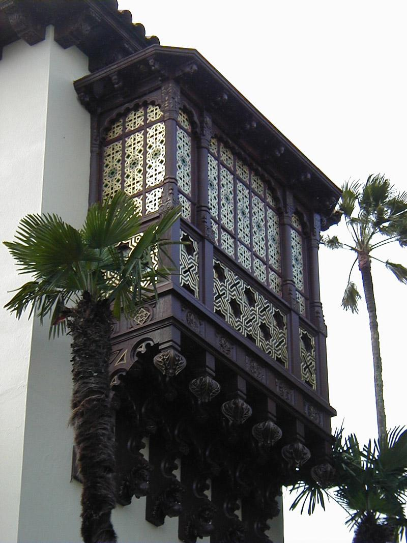 Image of Mashrabiya, Arabic style window grilles, at Hearst Castle, California